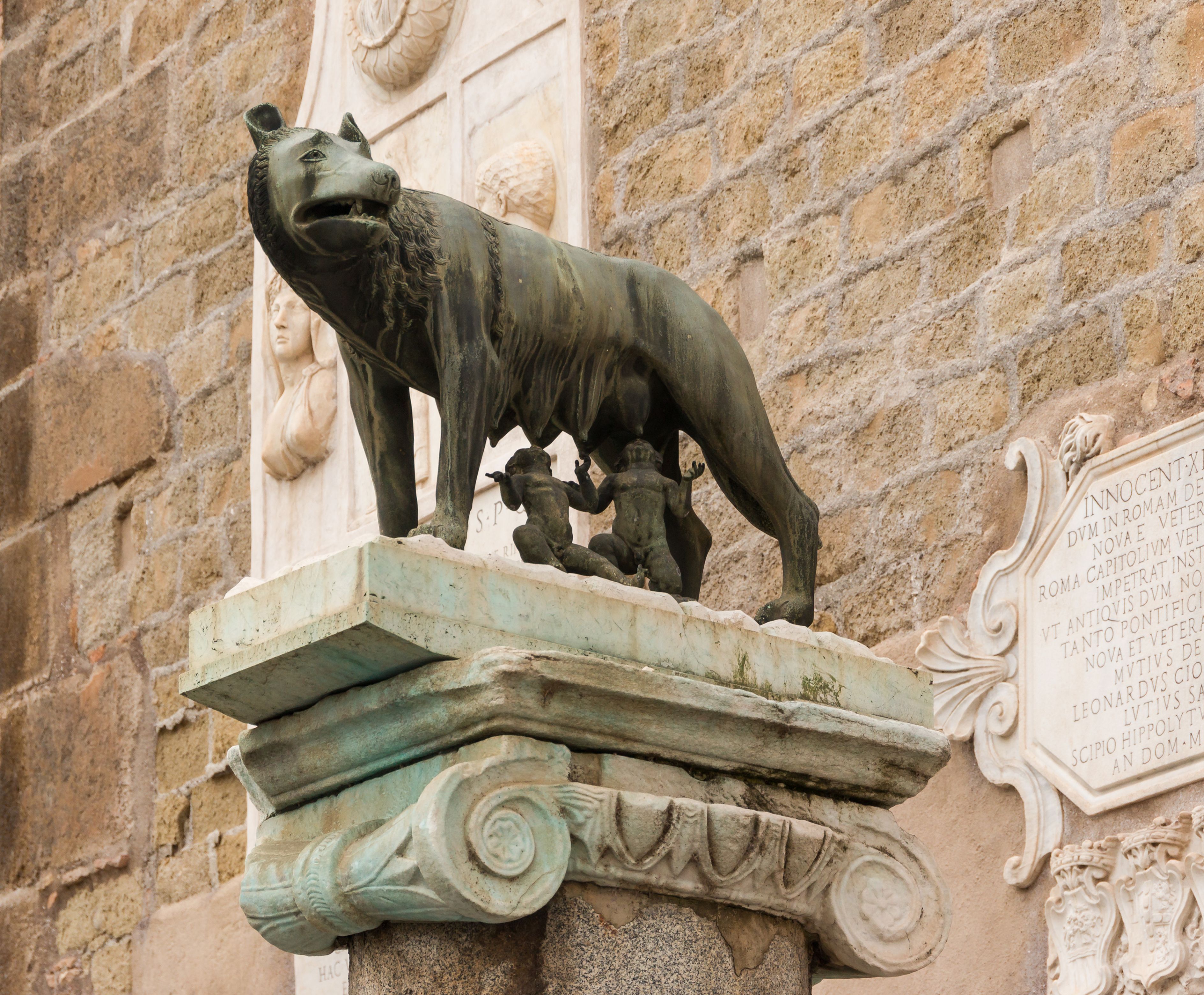 Replica of the capitoline she-wolf at the northern corner of Palazzo senatorio, Rome, Italy